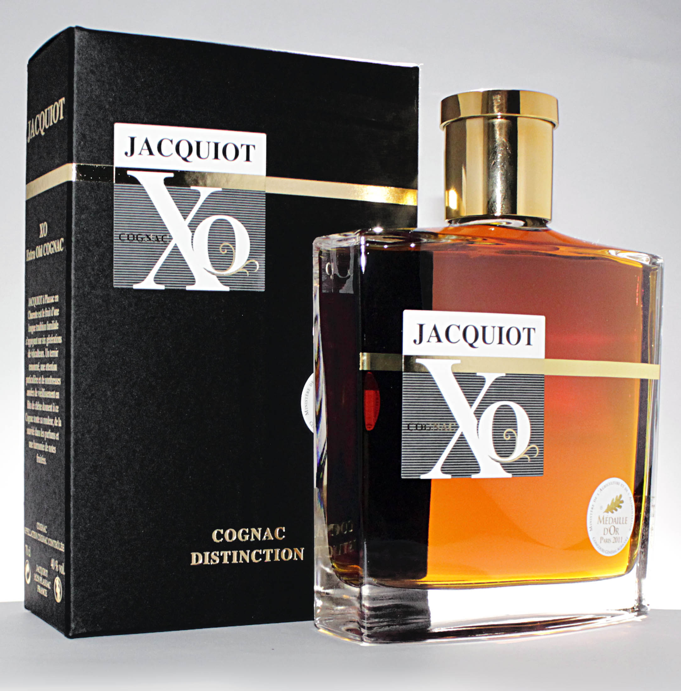 Cognac XO Jacquiot